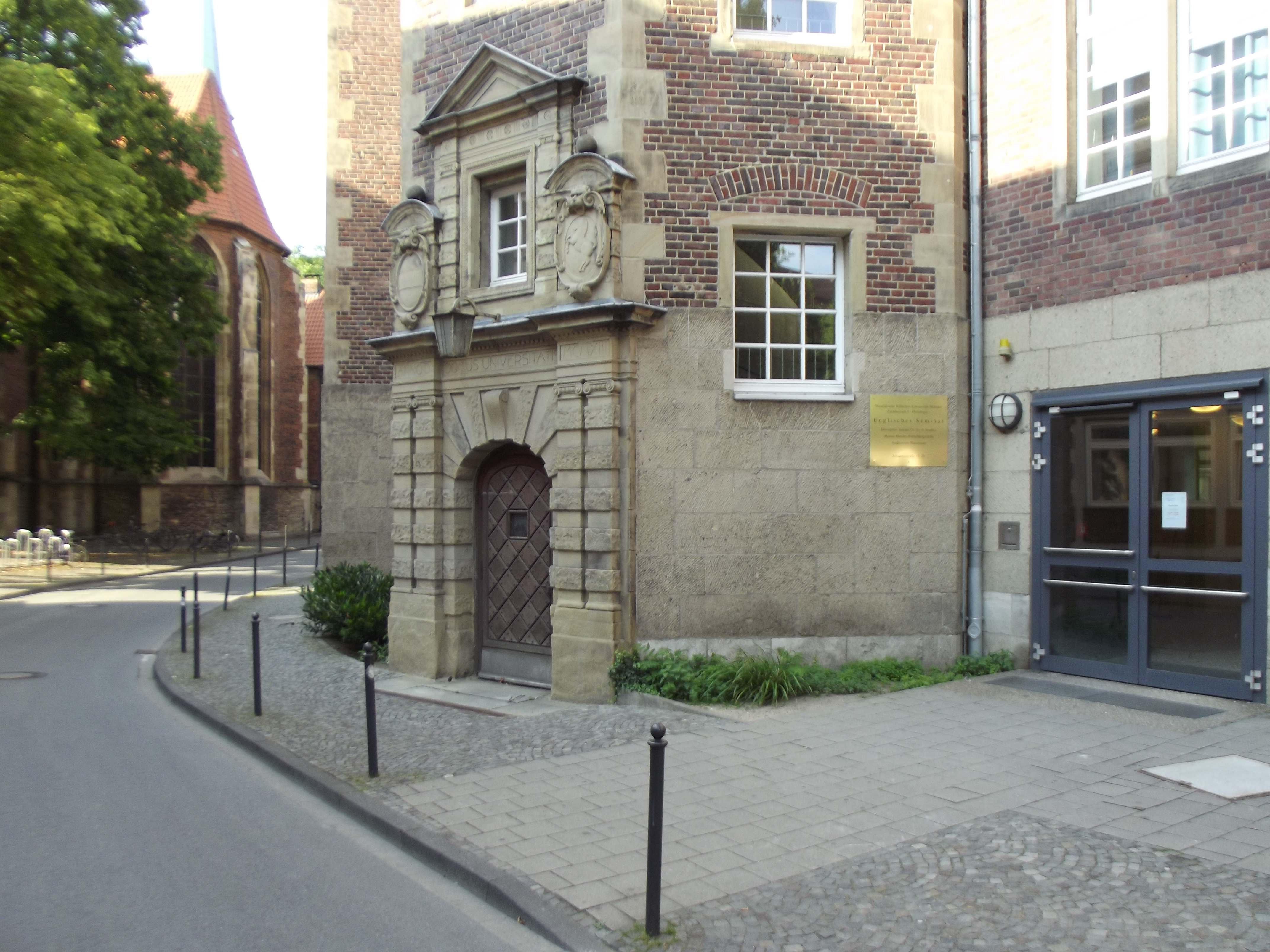 A probably interesting pic for the an English article on Münster: This is where English is taught on the highest level in Münster.